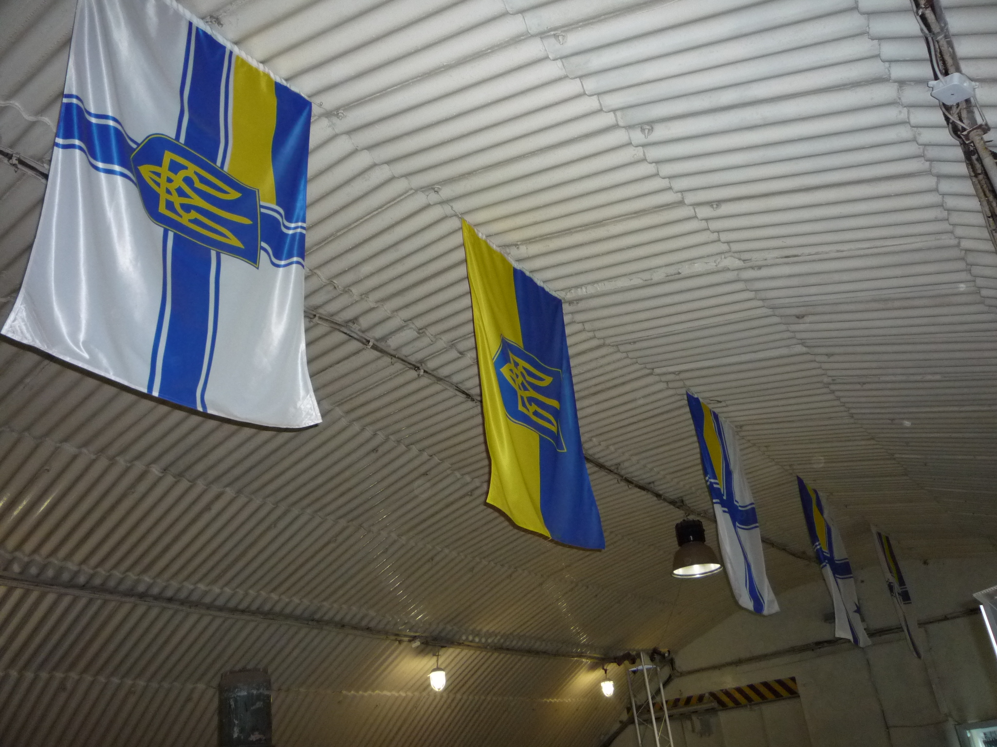 Должностные флаги ВМСУ. Музей в Балаклаве